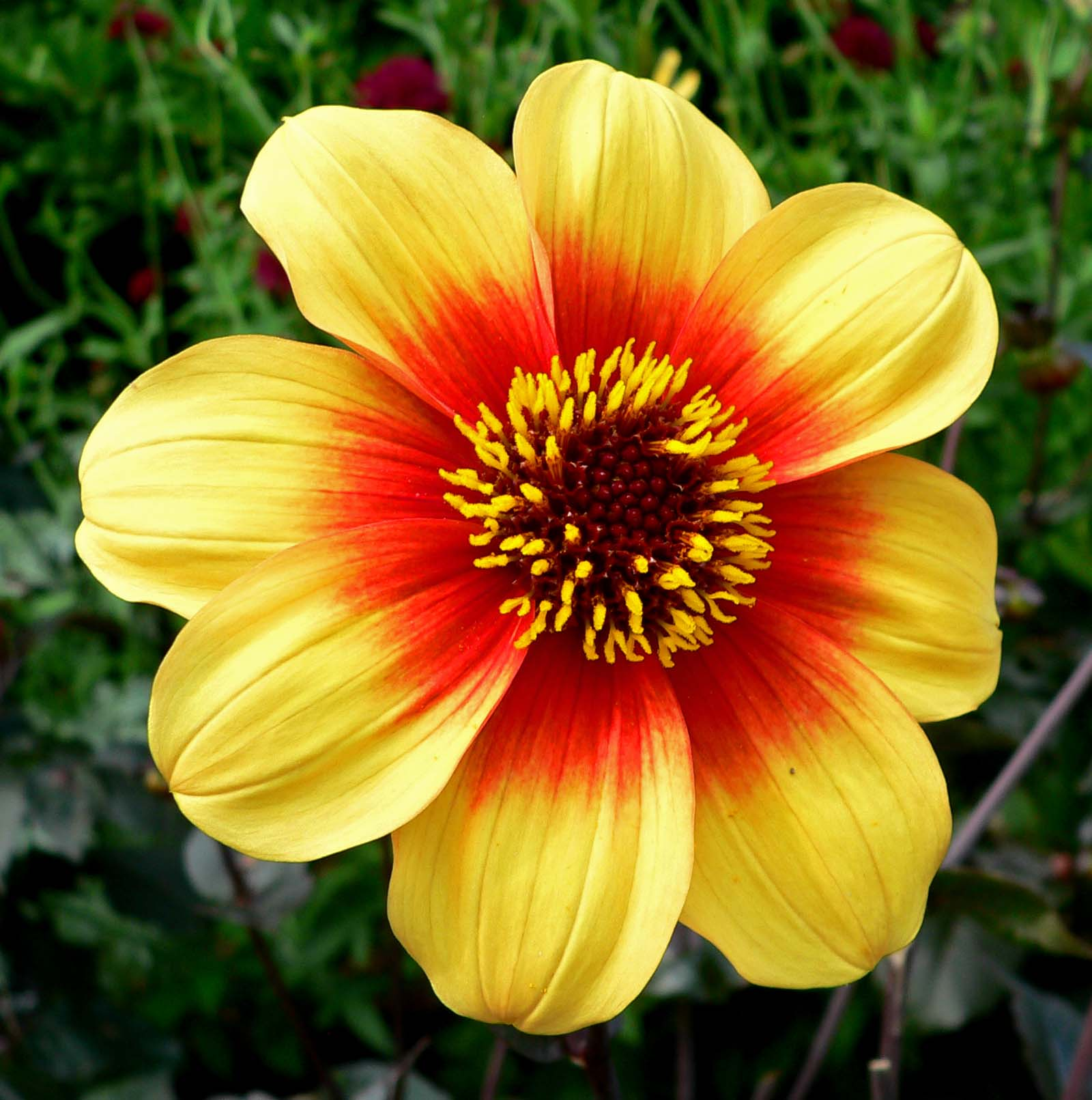 Photo of Dahlia 'Moonfire' at the VanDusen Botanical Garden in Vancouver